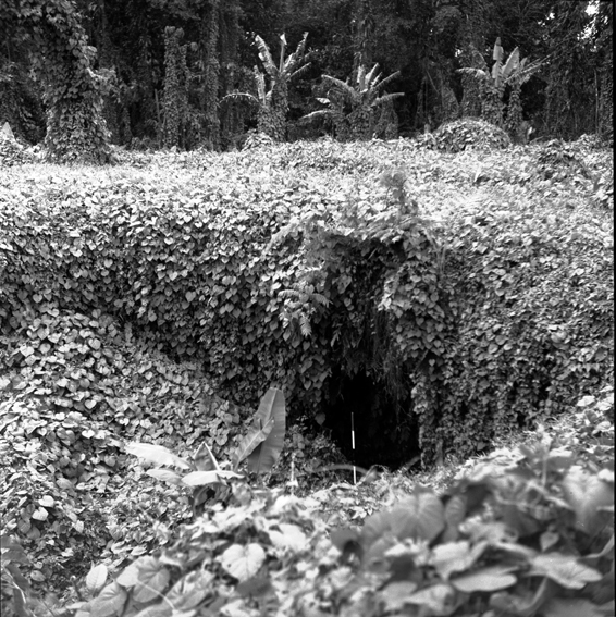 Entrance into the main shaft of the Falemauga Caves on Upolu island in Samoa. Photo taken 1957 by unknown photographer.